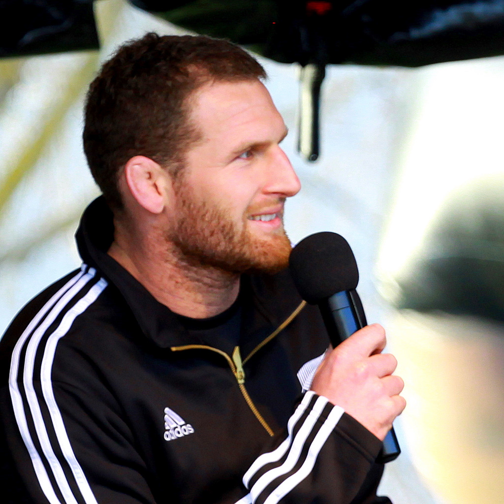 New Zealand rugby union player Kieran Read and the rest of the All Blacks visit Christchurch during the Rugby World Cup.